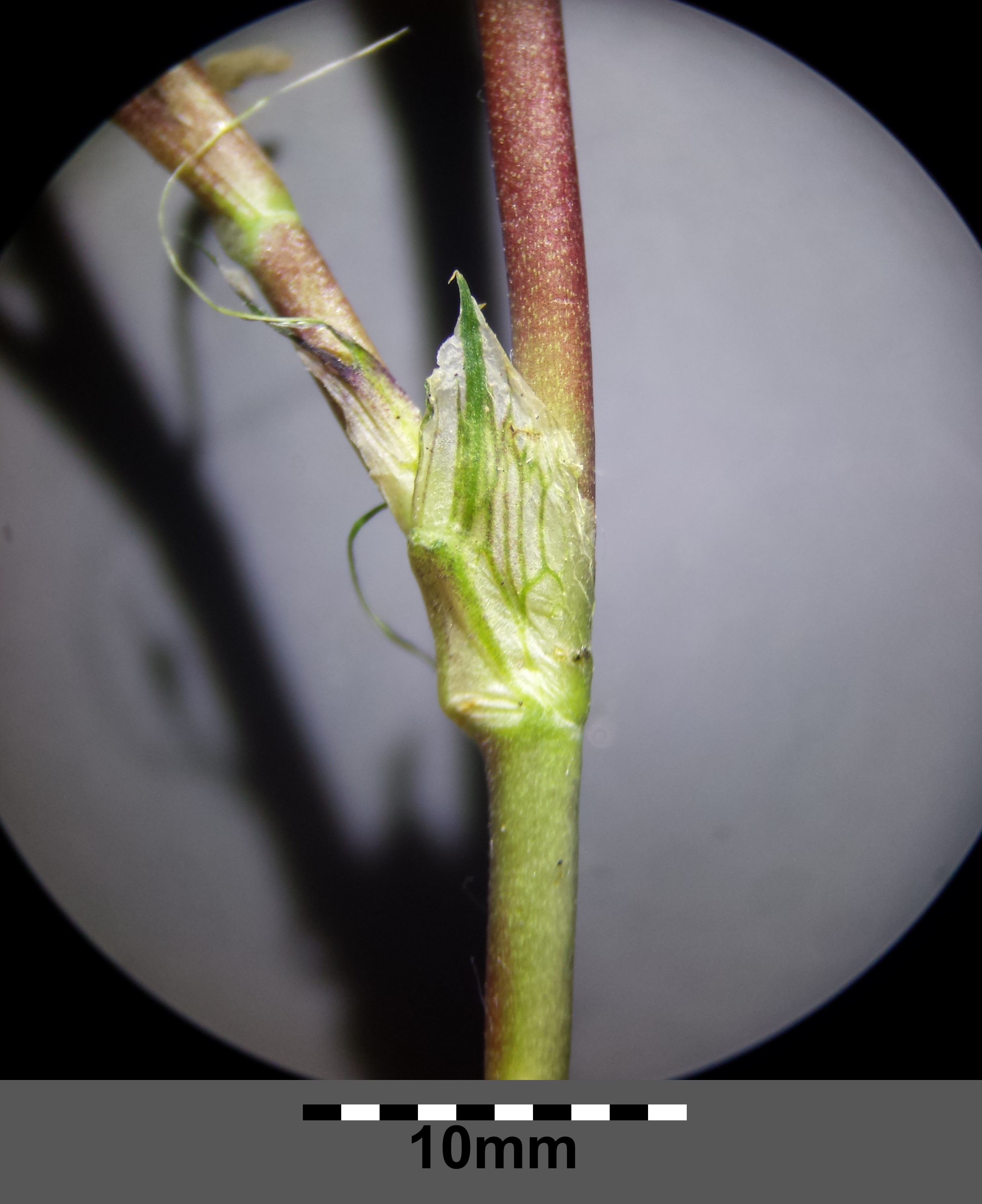 Stipe with leaf stalk and stipule Taxonym: Trifolium repens (subsp. repens) ss Fischer et al. EfÖLS 2008 ISBN 978-3-85474-187-9 Location: Neue Donau, Vienna-Floridsdorf - ca. 160 m a.s.l. Habitat: dry meadows